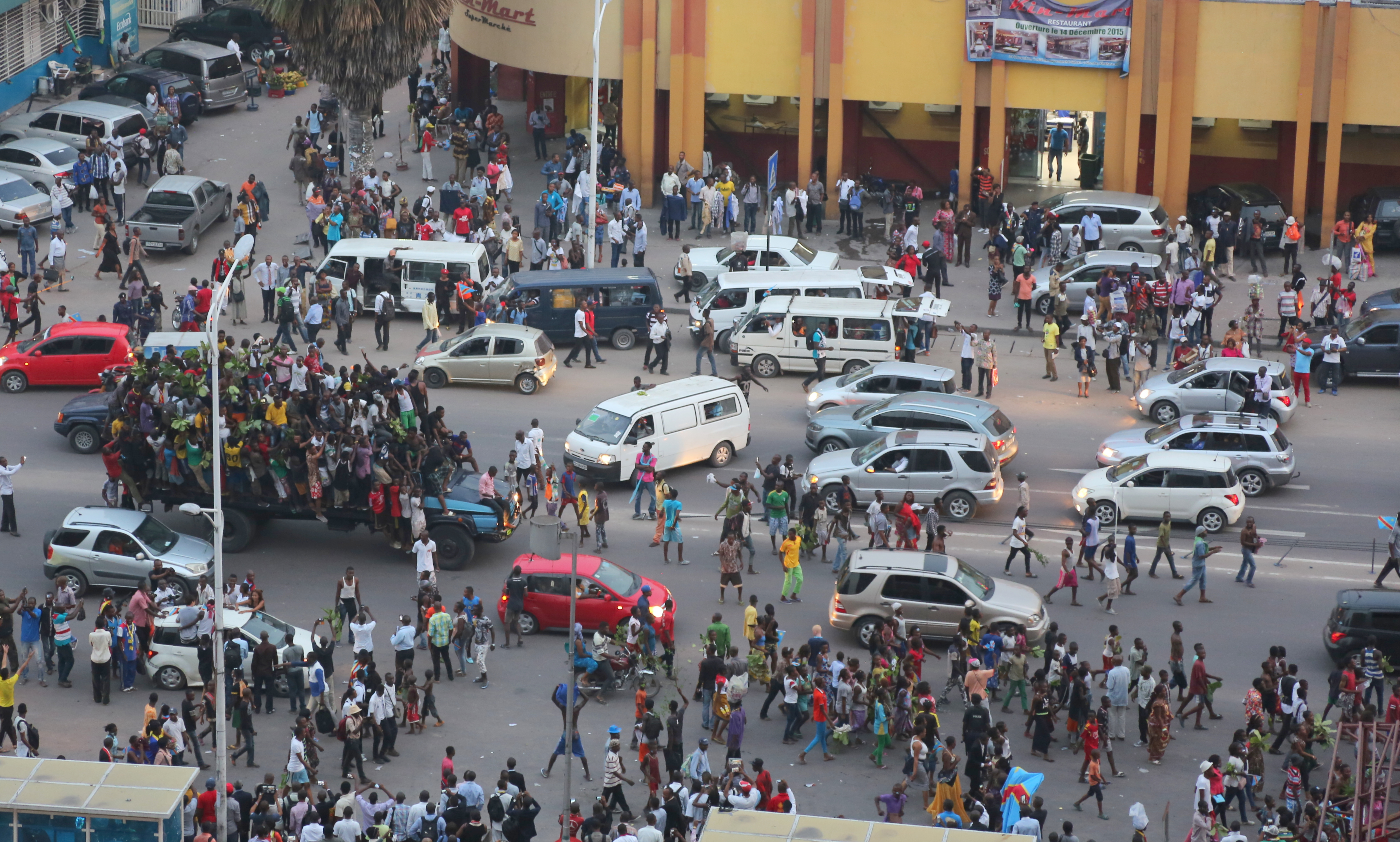 Kinshasa, DR Congo: Popular jubilation on the streets of Kinshasa last night following the qualification of the national team of DR Congo for the final of the 4th edition of the African Nations Championship (Chan) 2016. Photo MONUSCO/Michael Ali